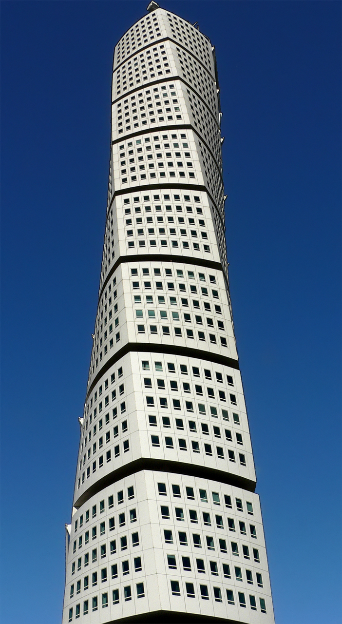 Designed by Spanish architect Santiago Calatrava, this building is based on a sculpture called Twisting Torso. The tower has nine five-story cubes and a total of 149 apartments. You can´t visit the building unless you hire the conference part at the top. The hight is 190 m.